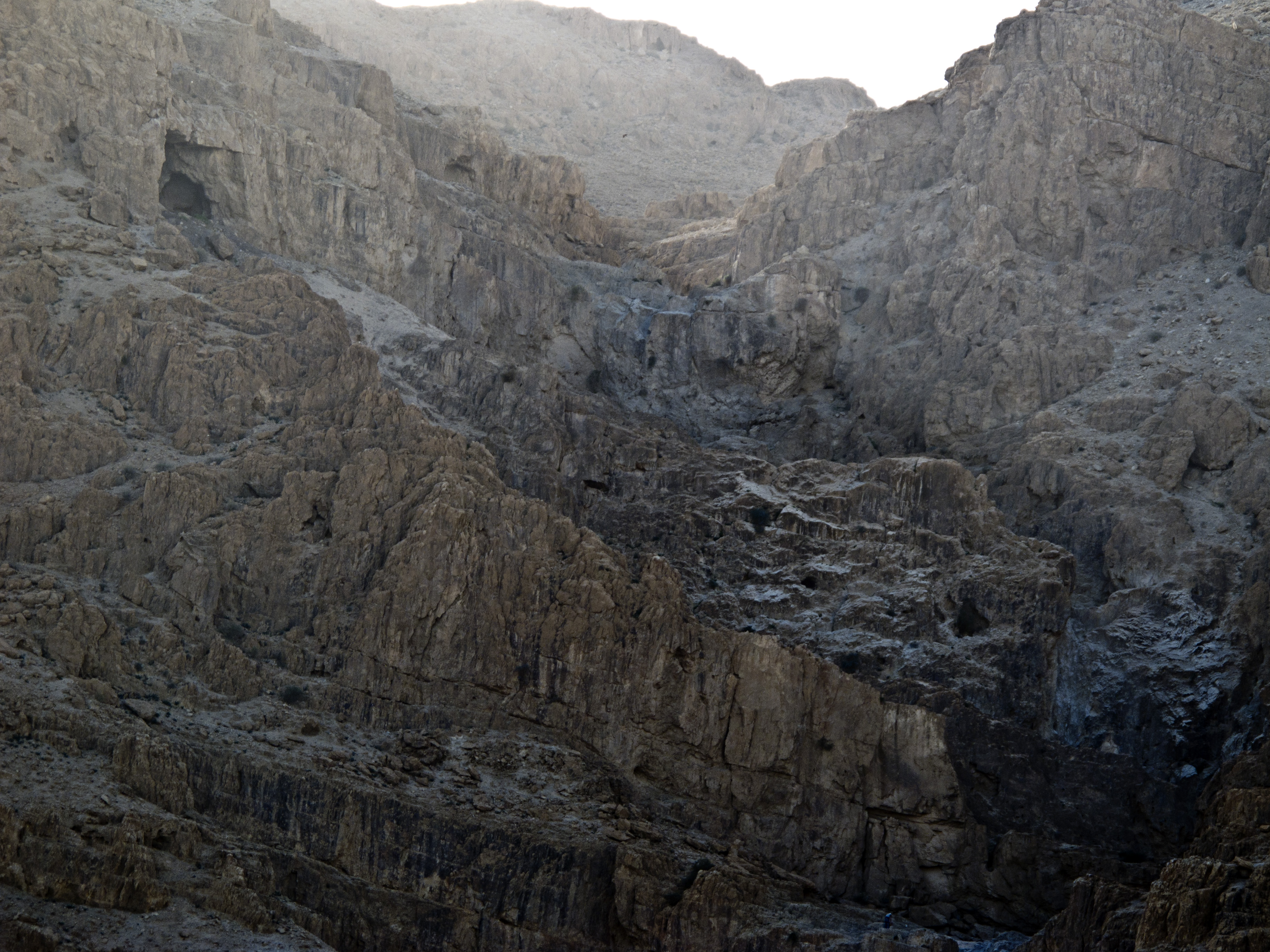 Above the northwest shore of the Dead Sea are caves where Dead Sea Scrolls were found. On Google Earth: Dead Sea Scrolls 31°44'30.92"N, 35°27'34.02"E Israel. 20110226 West Bank 0574 Qumran (5539929075).jpg